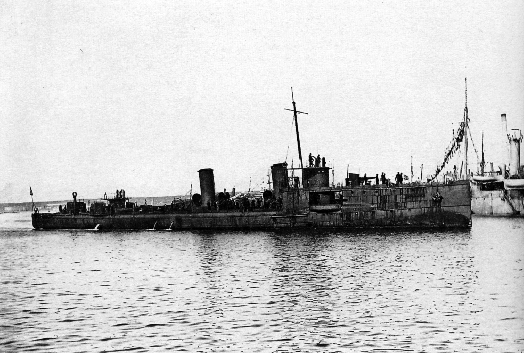 The Imperial Russian built squadron torpedo boat (destroyer) Kapitan Saken.